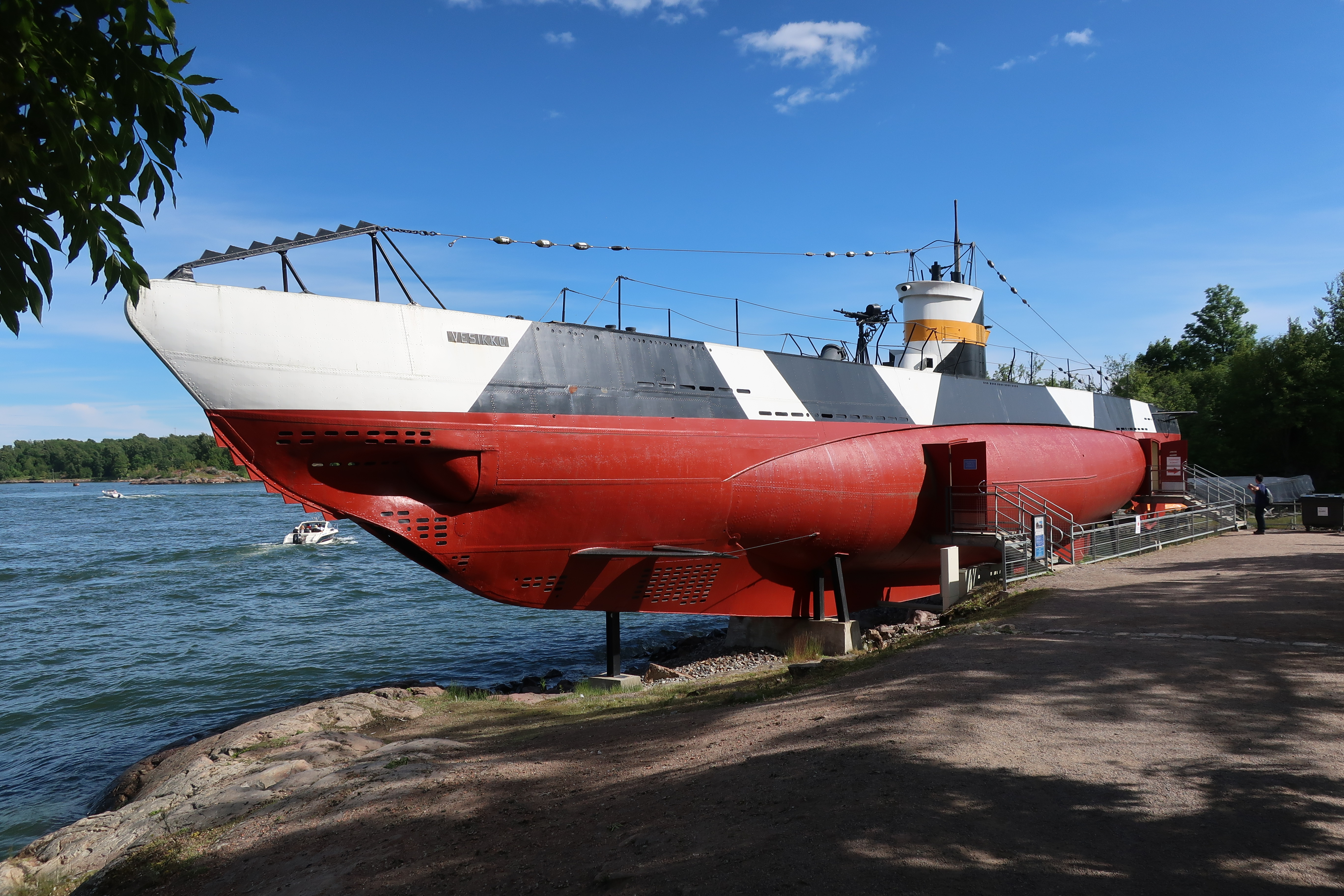 Museum submarine Vesakko in 2017